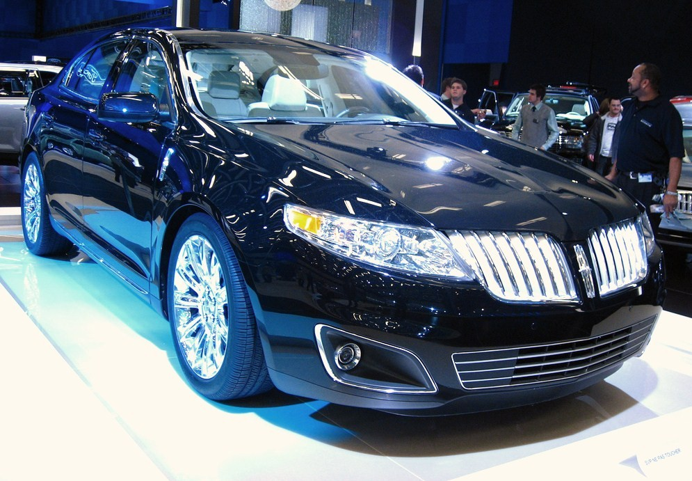 A Lincoln MKS at the 2008 Montreal International Auto Show